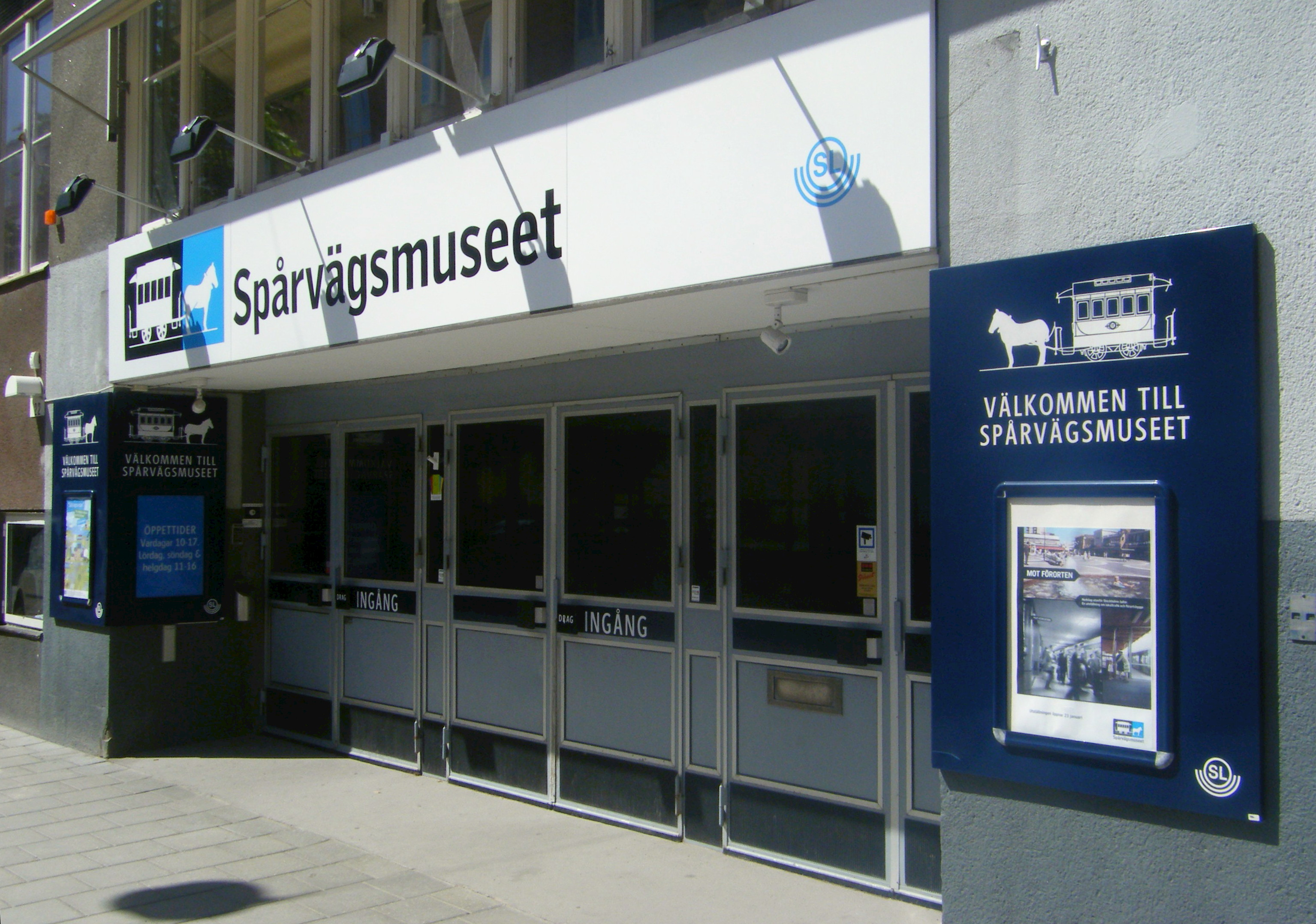 Spårvägsmuseet in Stockholm